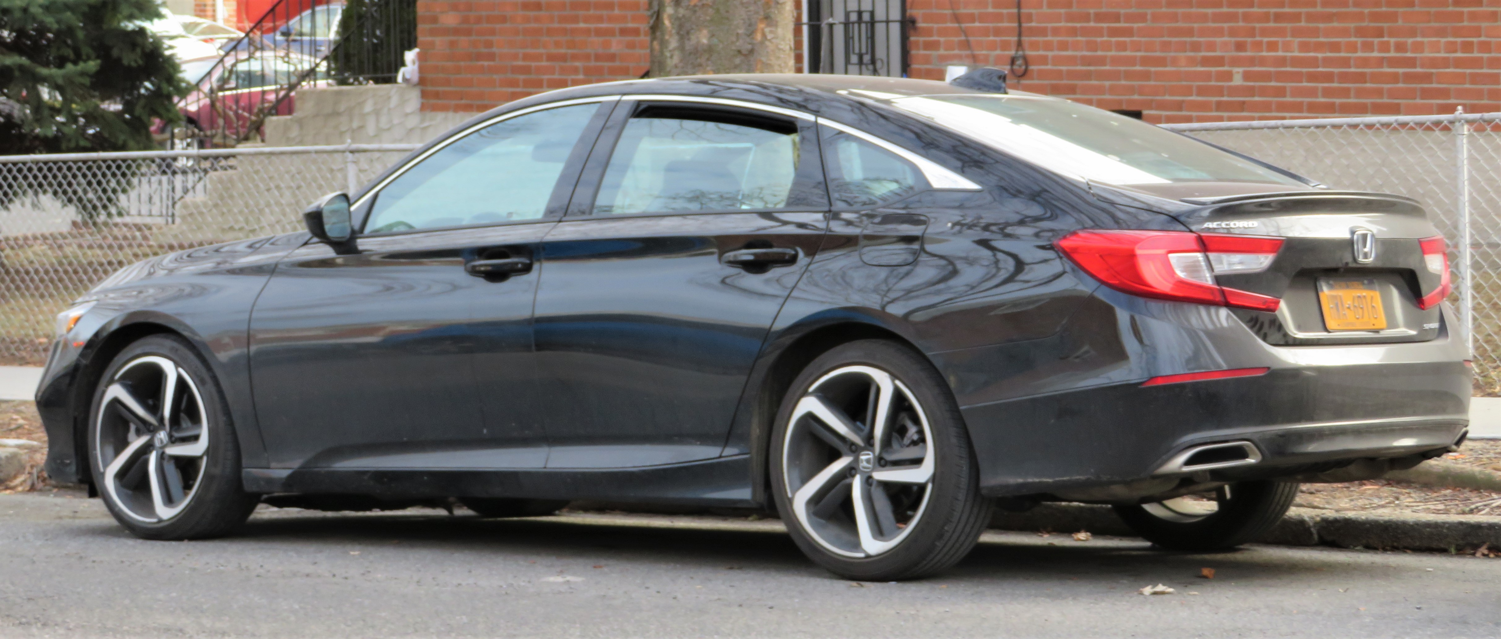 The rear is related to the new Odyssey. Spotted in Flushing, New York.